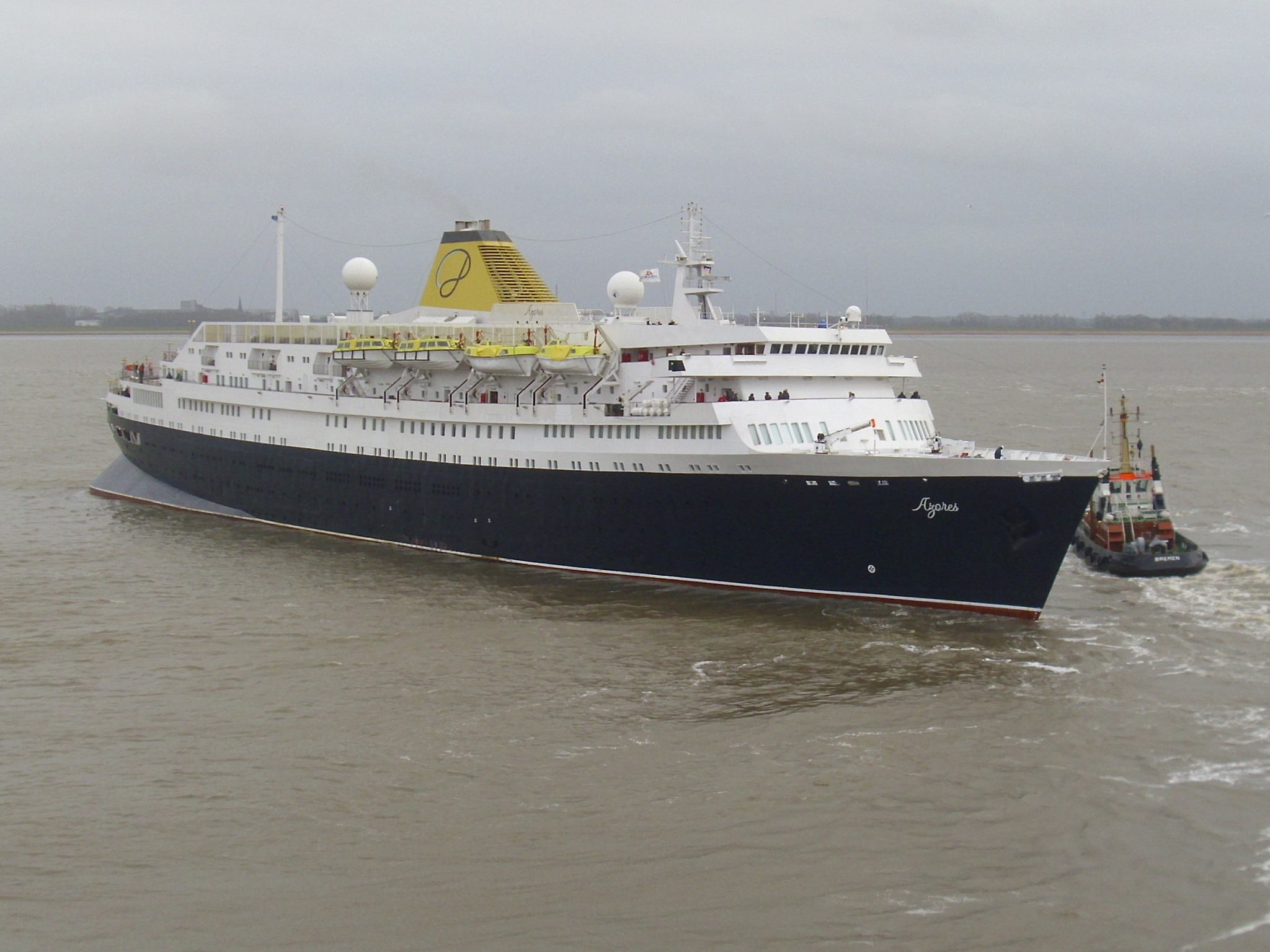 The cruise ship Azores is leaving the Columbus Cruise Center in Bremerhaven, Germany